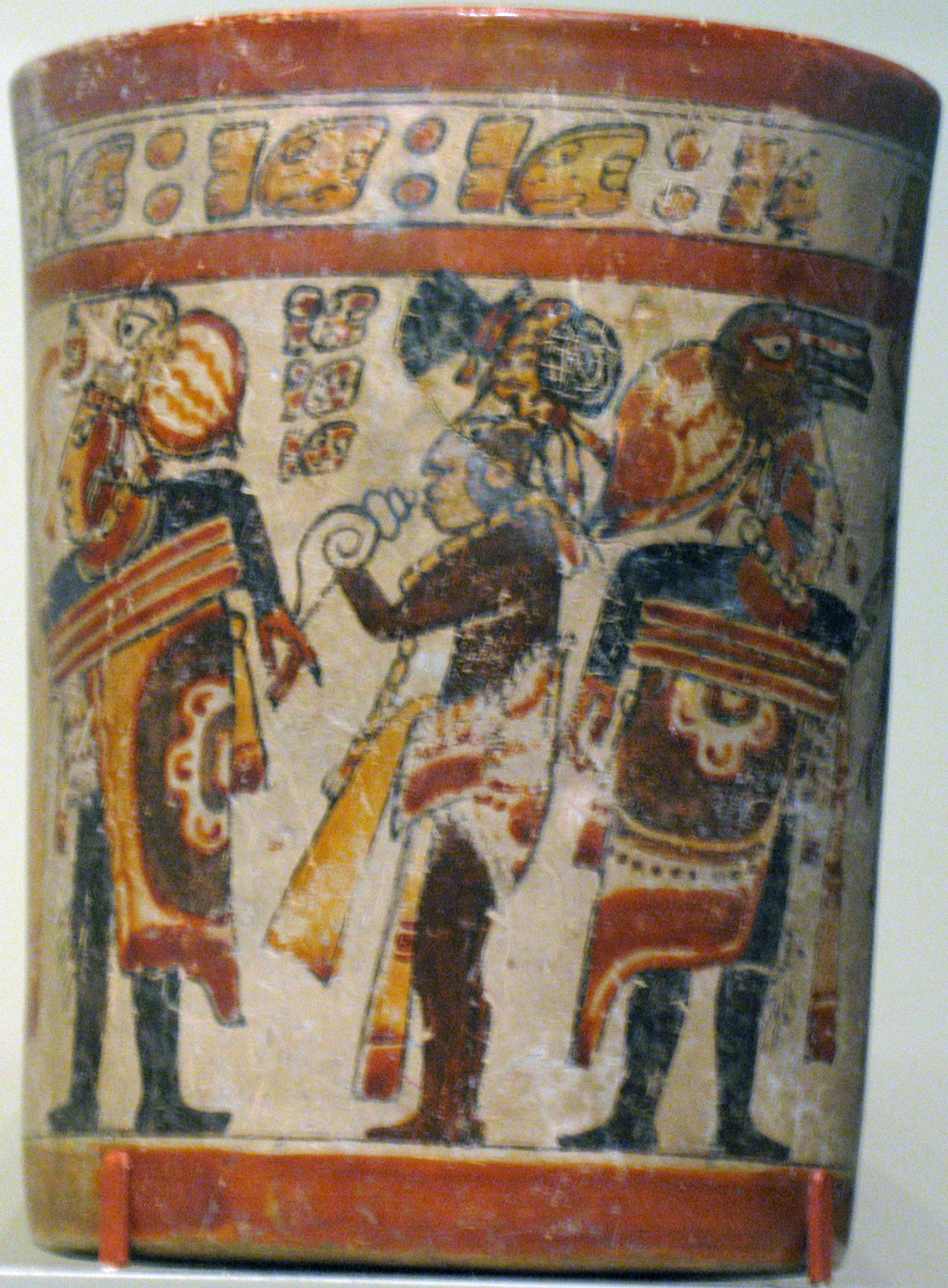 Maya polychrome vessel; Mexico, Late Classic, ca. A.D. 700; Clay, paint; Museum of the native American, New York, N.Y., USA